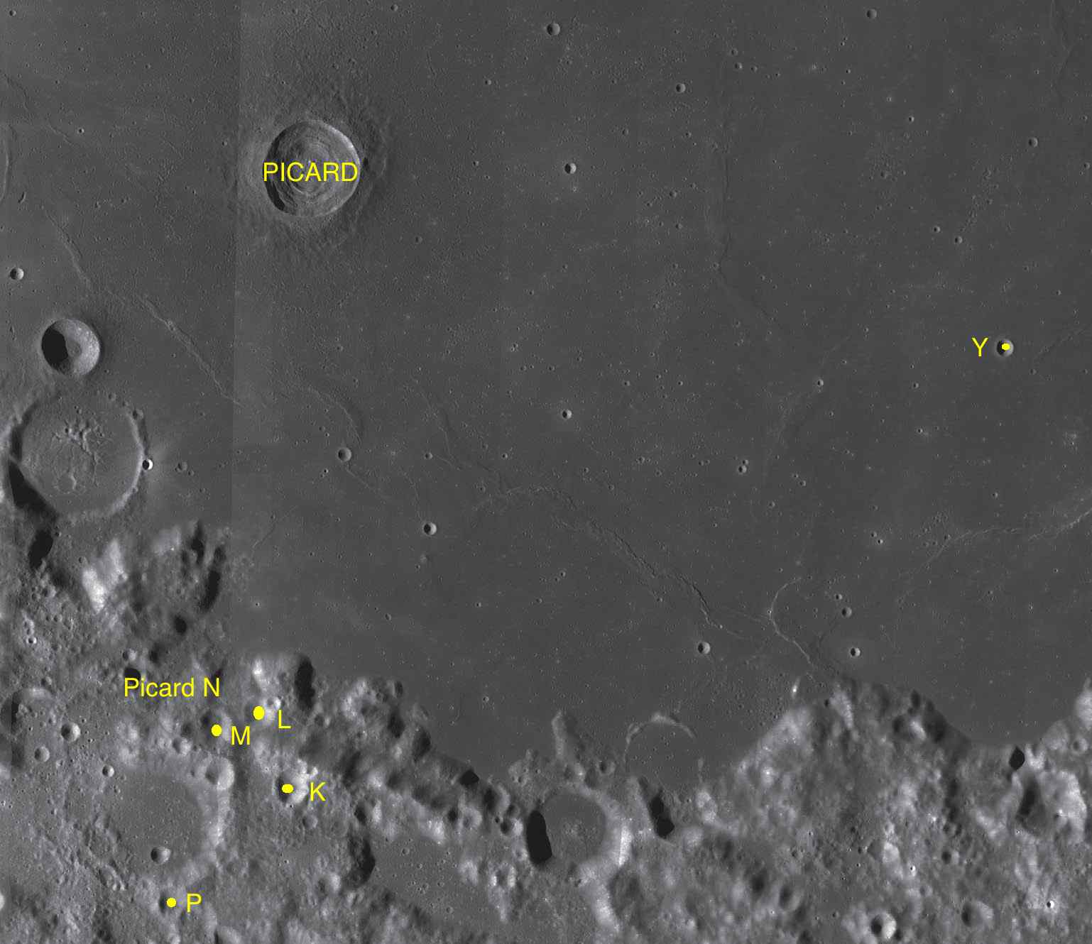 Part of the chart LAC-62 used for the presentation.